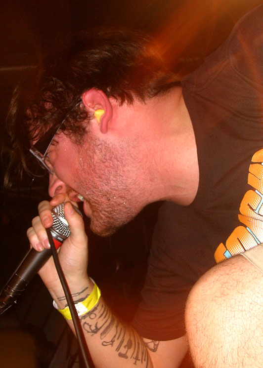 The Black Dahlia Murder playing in Sneek, Netherlands at 01/21/2006.